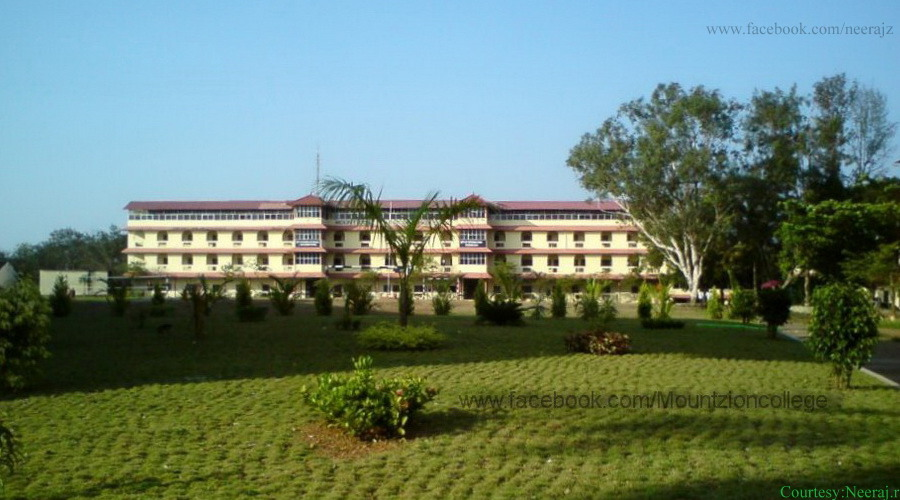 Mount zion college of engineering